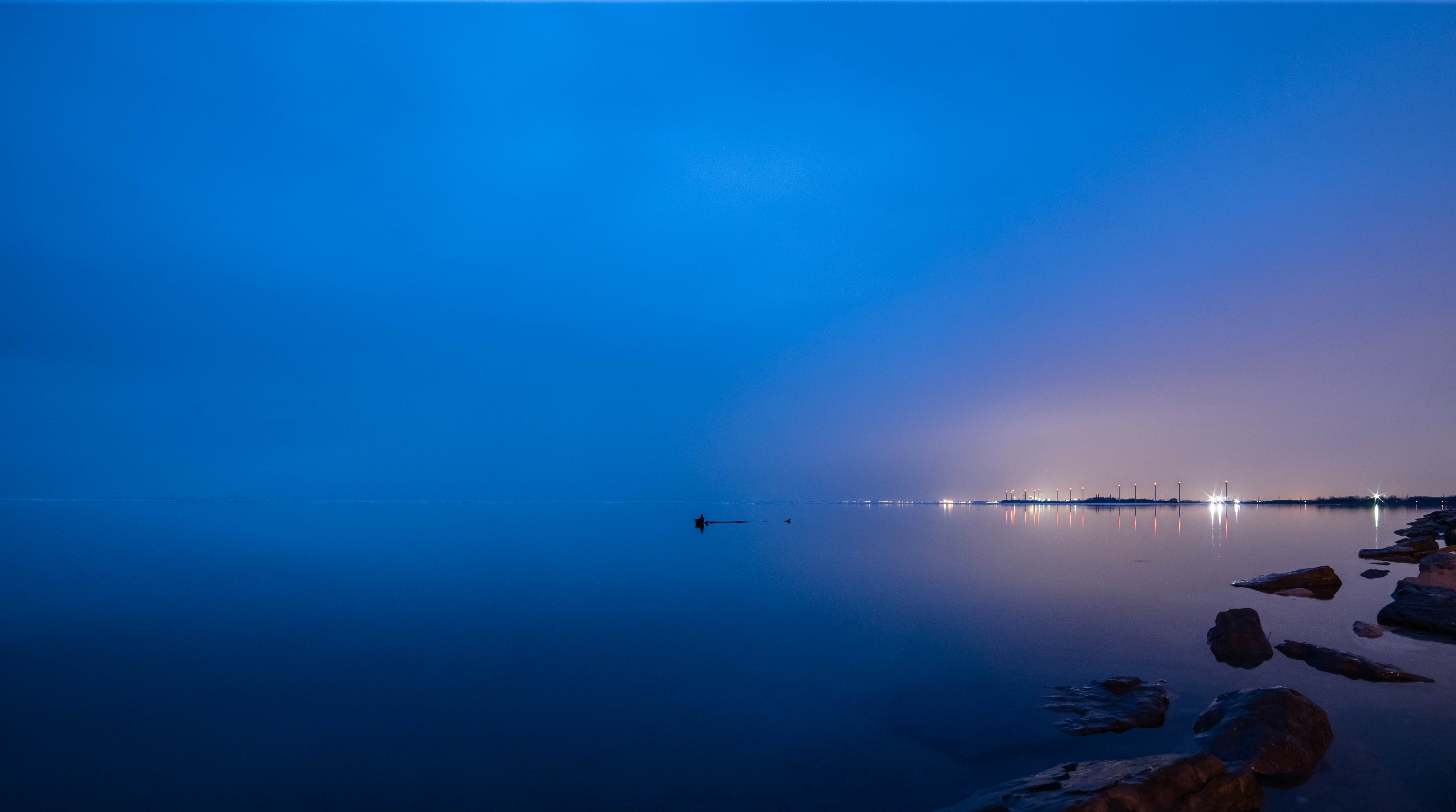 Evening view of Buffalo, New York from Bayview Road in Hamburg, New York. Windmills can be seen in the distance.